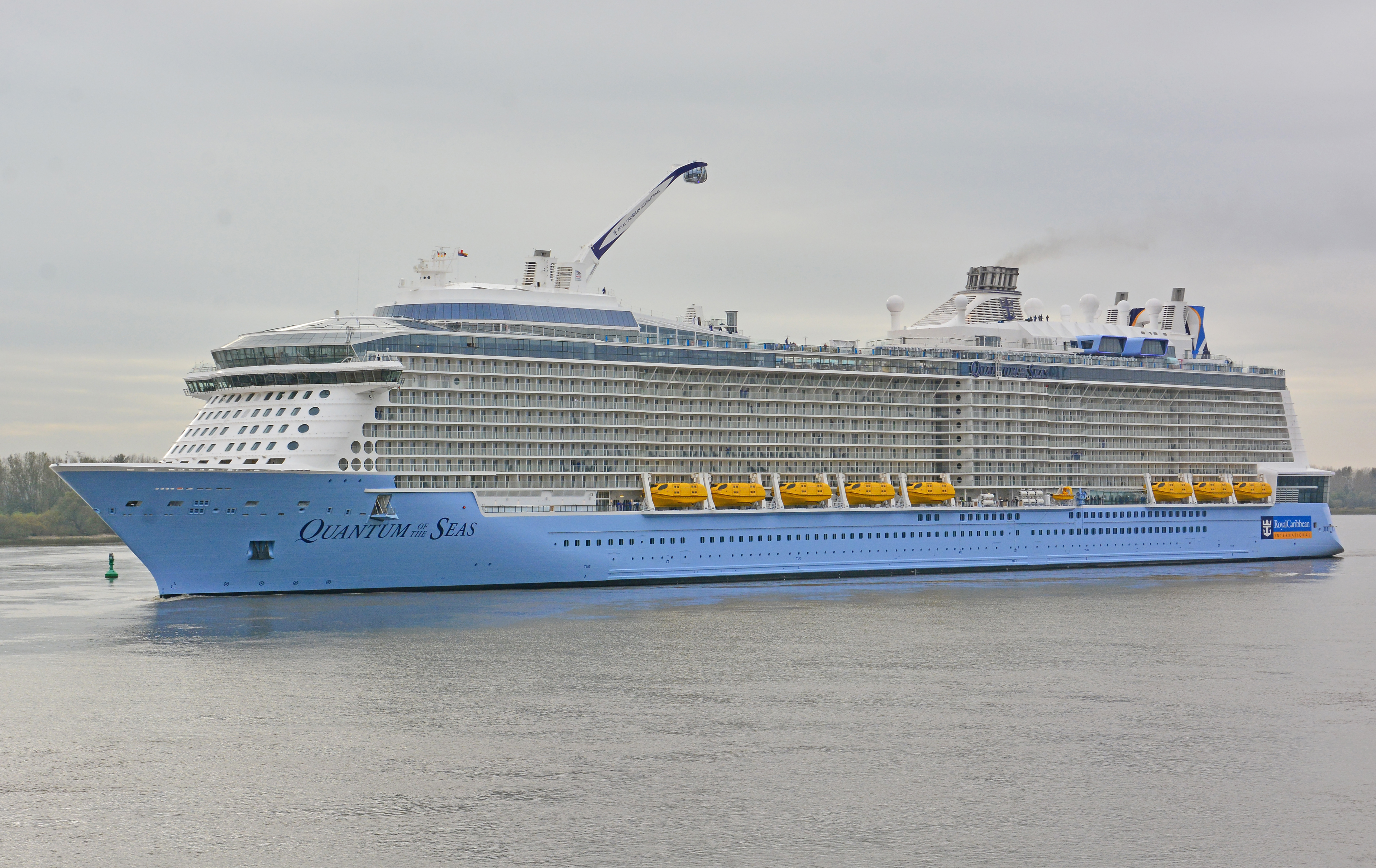 Quantum of the Seas on the Elbe River near Wedel in Schleswig-Holstein, Germany